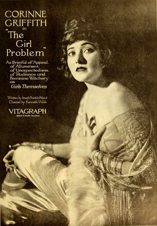 Advertisement in Moving Picture World, March 1919 for The Girl Problem (1919) with Corinne Griffith.